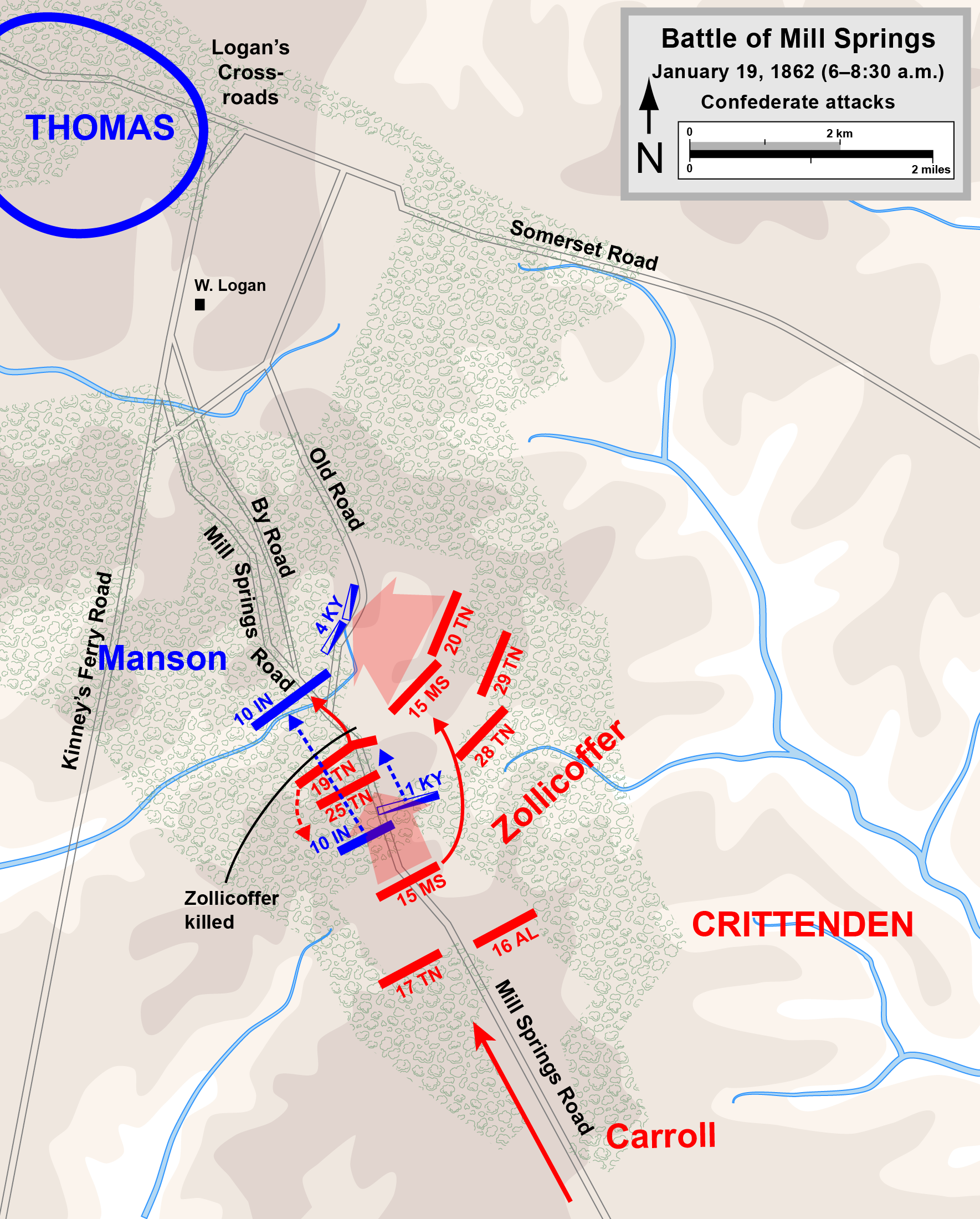 Map of Battle of Mill Springs, Kentucky, of the American Civil War—Confederate attacks. Drawn in Adobe Illustrator CS5 by Hal Jespersen. Graphic source file is available at